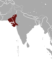 Indian Hedgehog (Paraechinus micropus) range